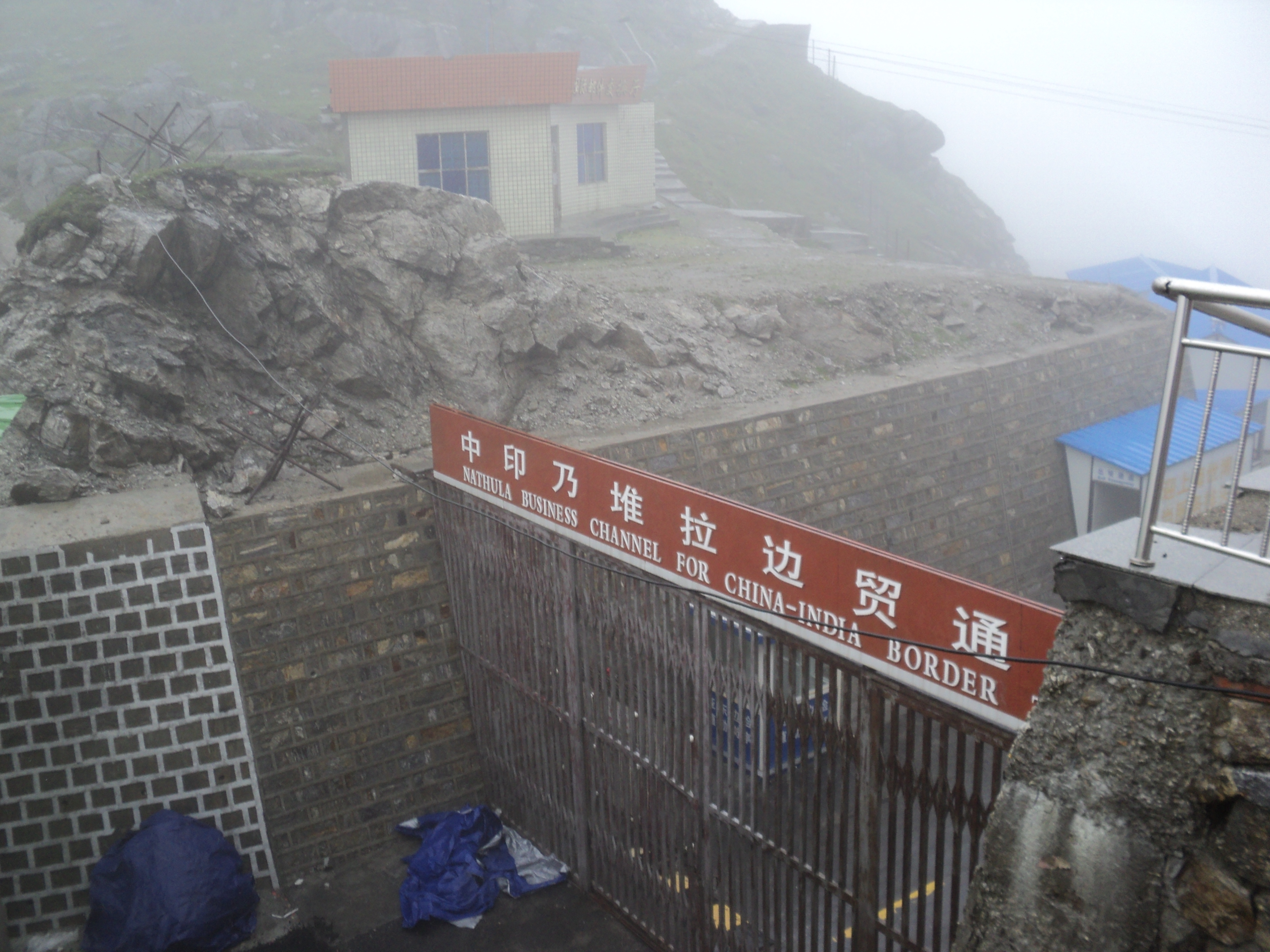 Border Crossing